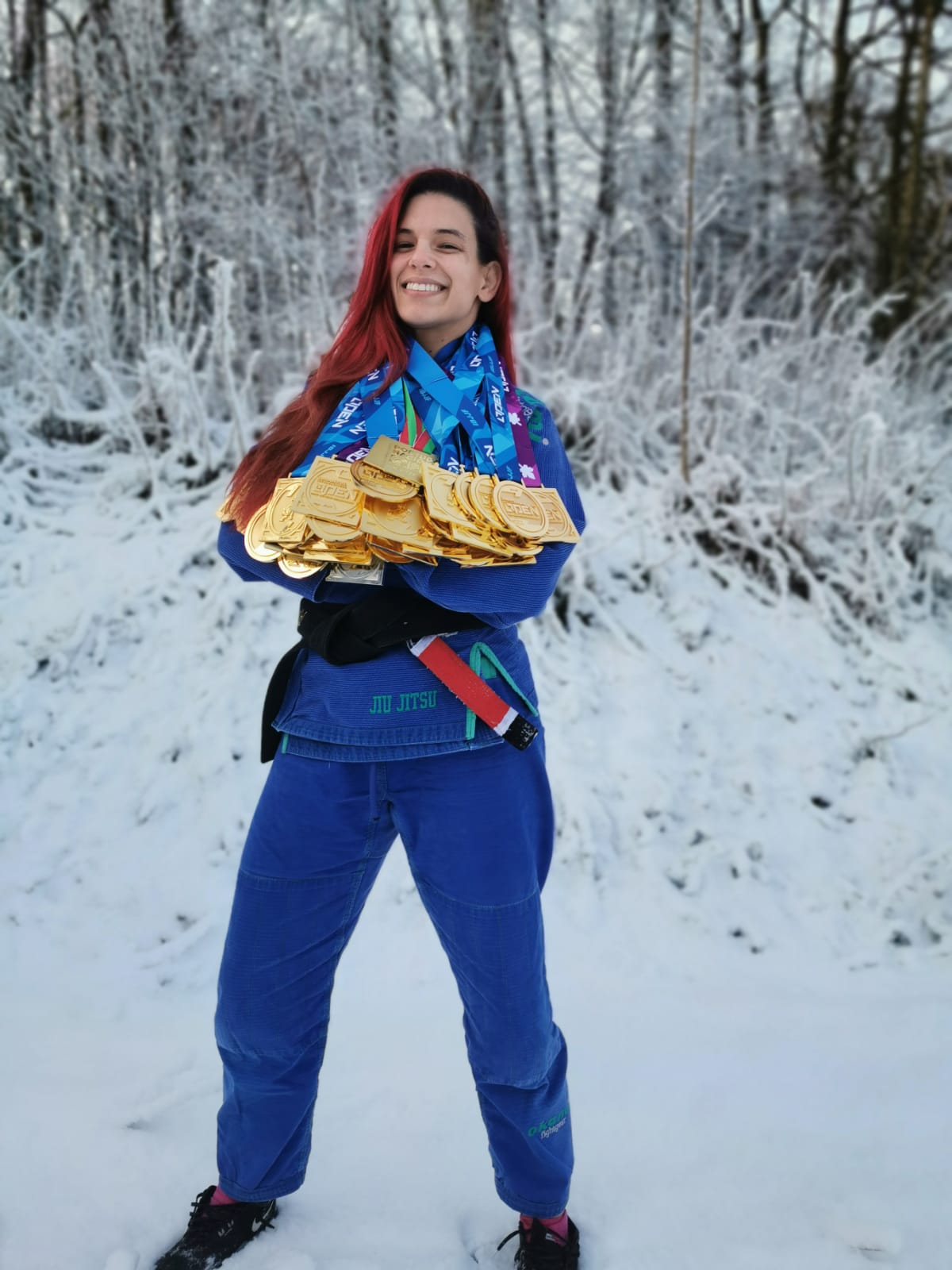 Claudia gold 2019